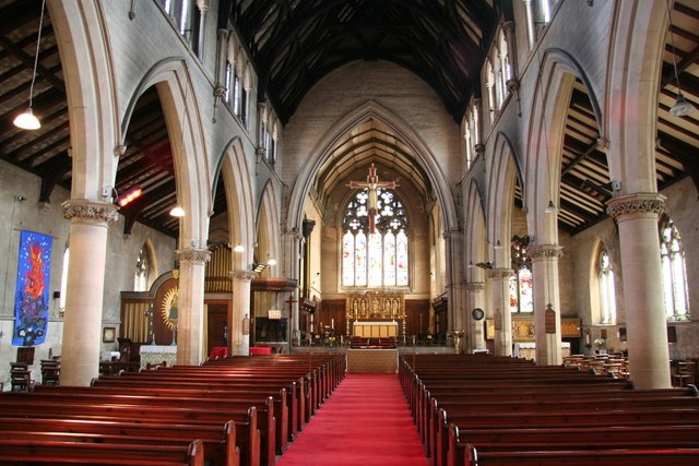 St.Swithin's nave Looking east with neo-Early English arcades, by James Fowler 1869-87